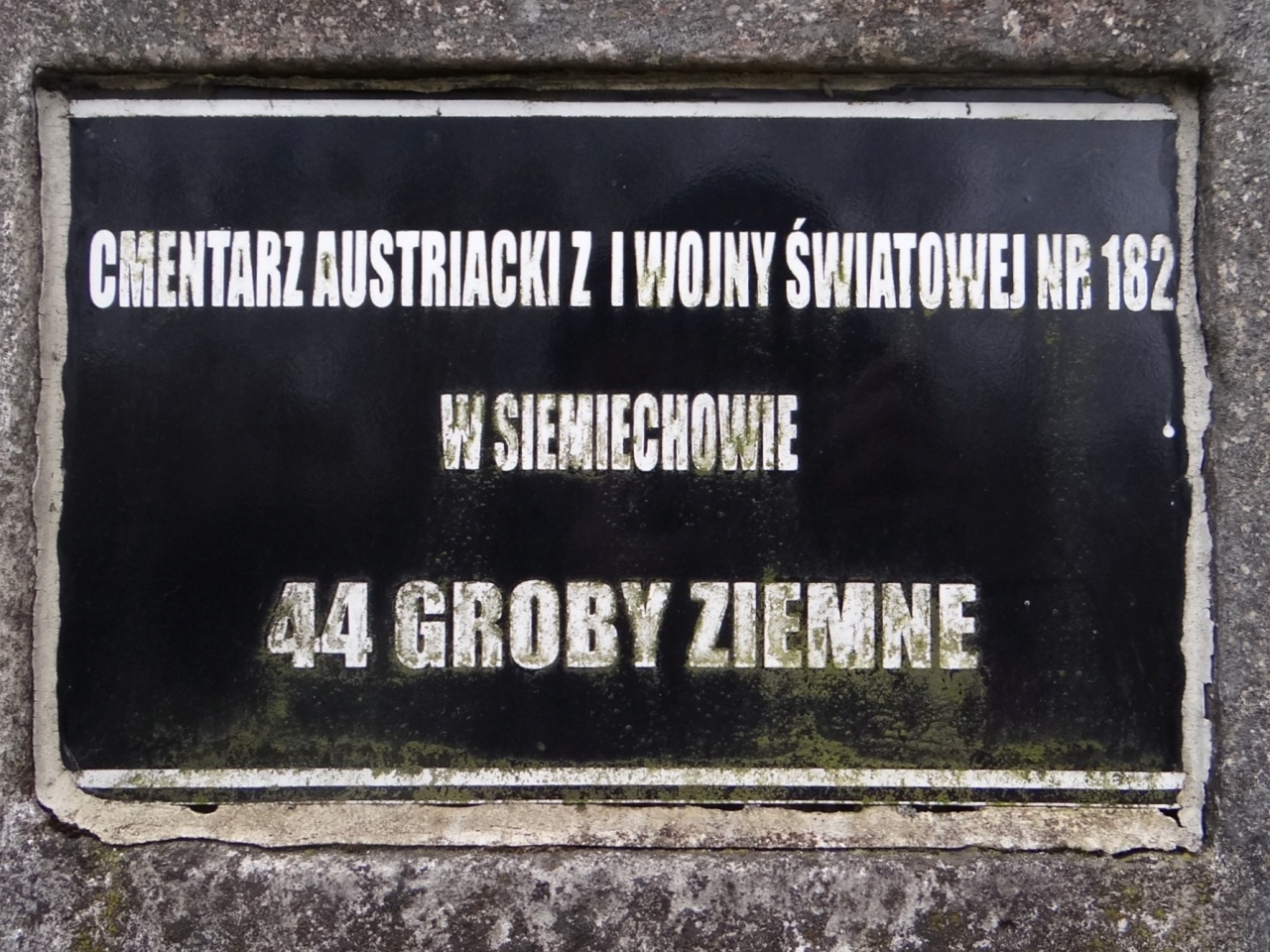 World War I Cemetery nr 182 - Siemiechów